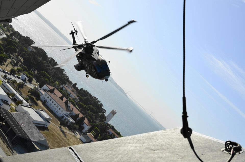 Portuguese EH-101 Merlin breaks formation in a training flight over Montijo Air Base, near Lisbon, Portugal.